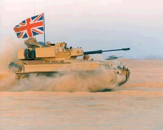 A FV107 Scimitar of the CVR(T) recce vehicle family on the move, displaying the Union Jack.